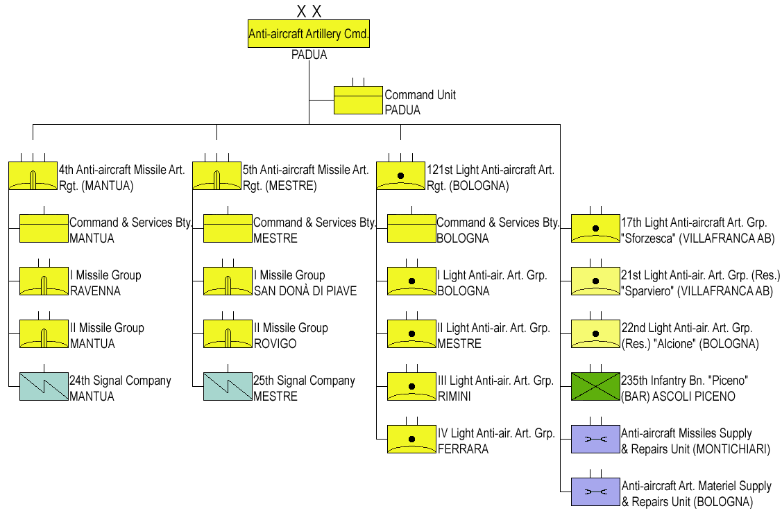 Structure of the Italian Army's Anti-Aircraft Artillery Command in 1977